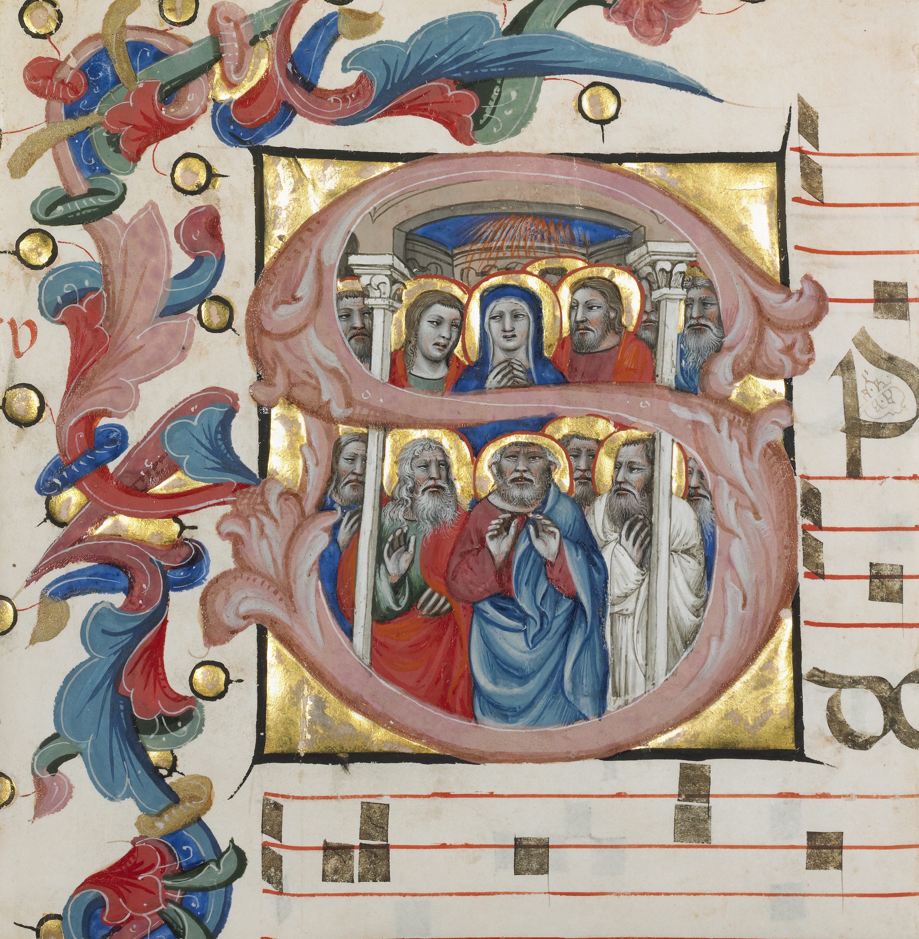 Niccolò da Bologna's tempera and gold on parchment, 1494-1502, J. Paul Getty Trust. This illuminated letter 'S' is one of twenty known large historiated initials made for a choir book commissioned by the Carthusian monastery of Santo Spirito in Lucca. It portrays Pentecost, the moment in which the Holy Spirit descends upon the twelve apostles in order to give them the ability to speak foreign languages so they might preach throughout the world. Although all twelve apostles are shown, sometimes only a forehead or a hint of a nose indicates the body.